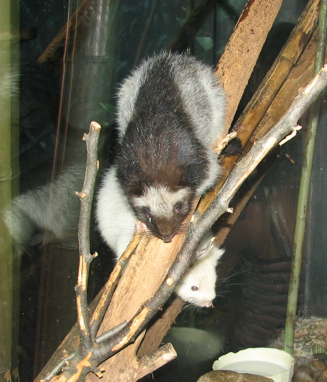 Slender-tailed Cloud Rat - Phloeomys pallidus en at Cincinnati Zoo